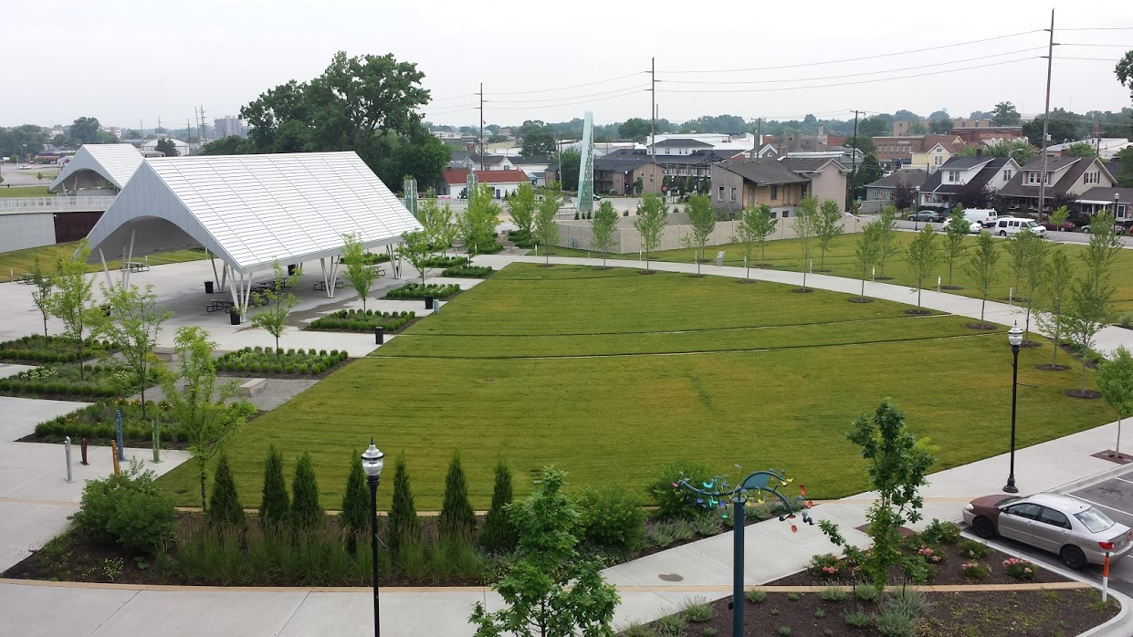 Big 4 Station (park) in Jeffersonville Indiana viewed from the Big 4 Bridge